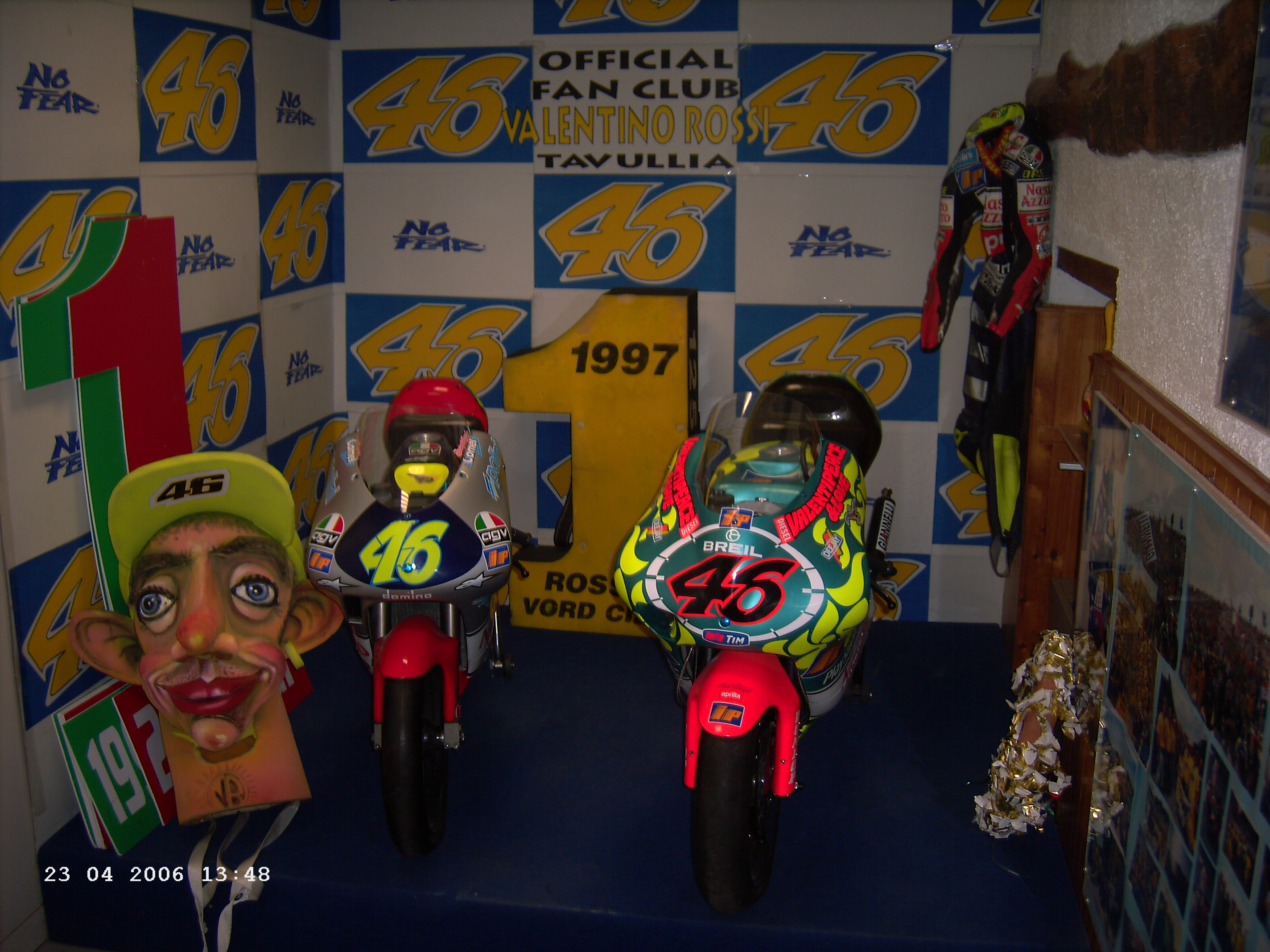 In the inside of Valentino Rossis fanshop in Tavullia / Italy